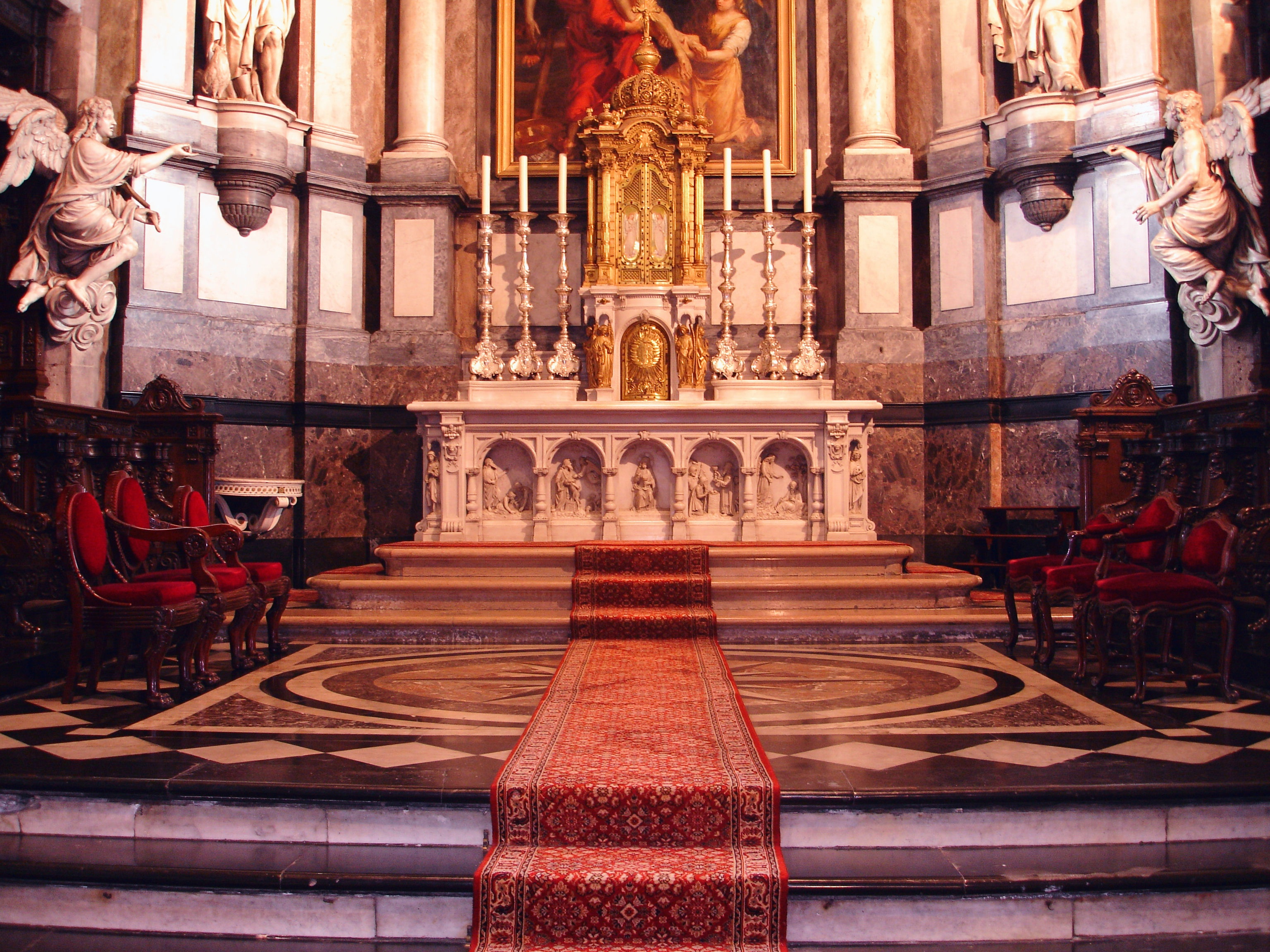 own work